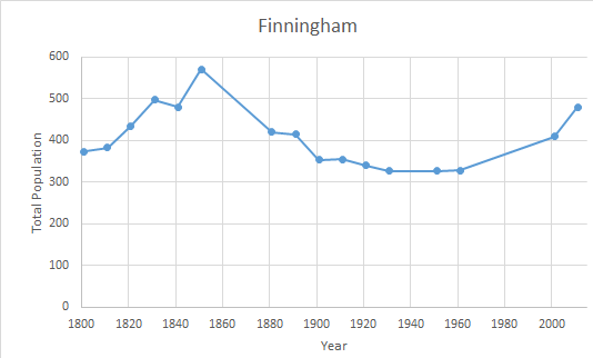 Total Population of Finningham Civil Parish, Suffolk, as reported by the Census of Population from 1801 to 2011.